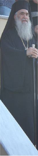 Metropolitan of Nicaea Alexios in the monastery of Holy Fathers in Perama, Attica, Greece in 30 May 2009